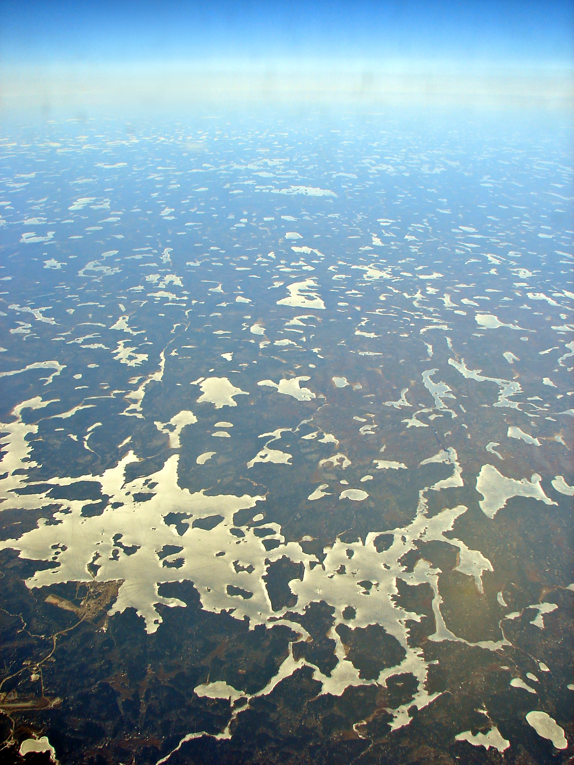 Kingfisher Lake (largest lake in foreground), Ontario, Canada